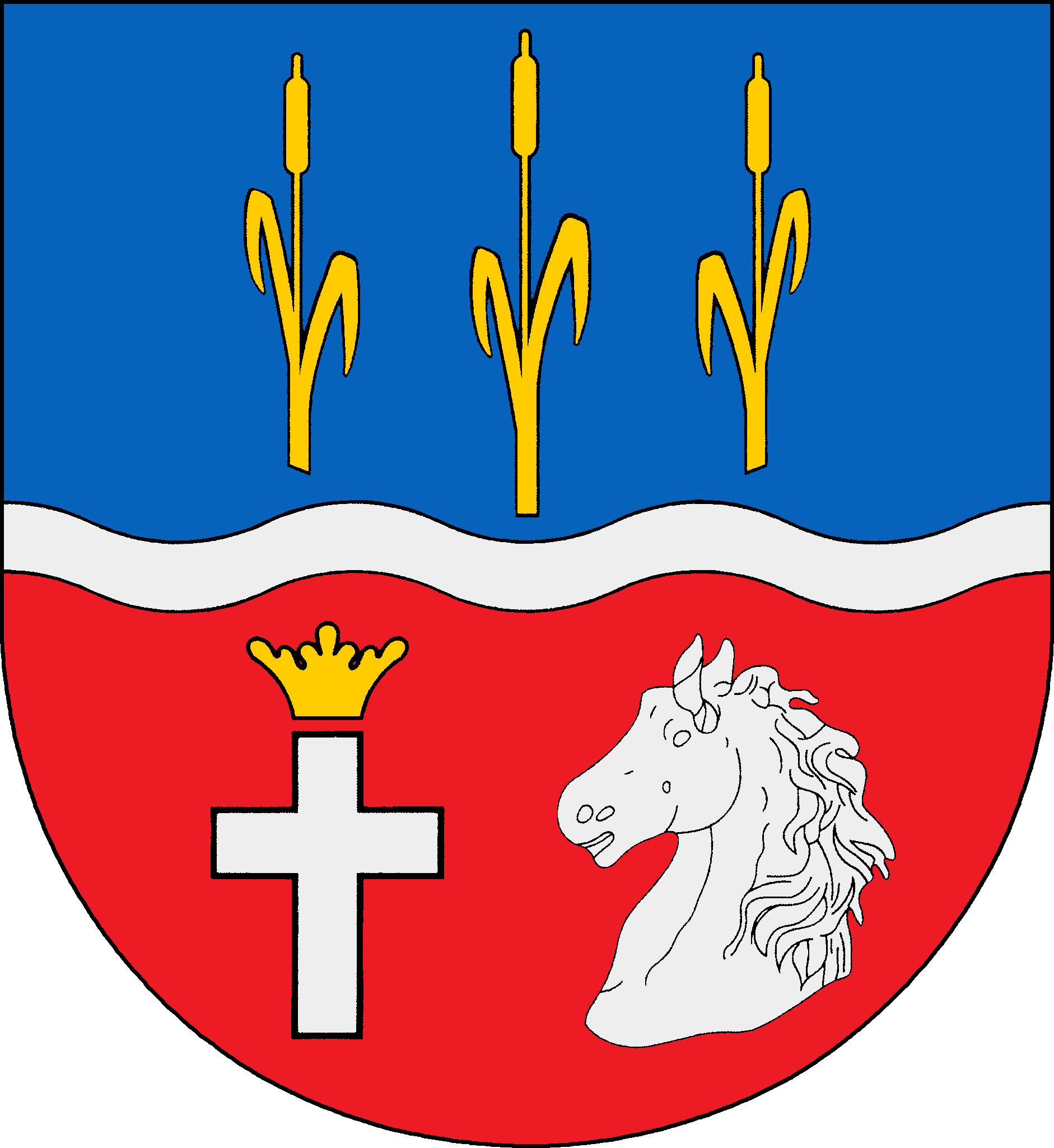 Coat of arms of the municipality Ziethen in Schleswig-Holstein, Germany.